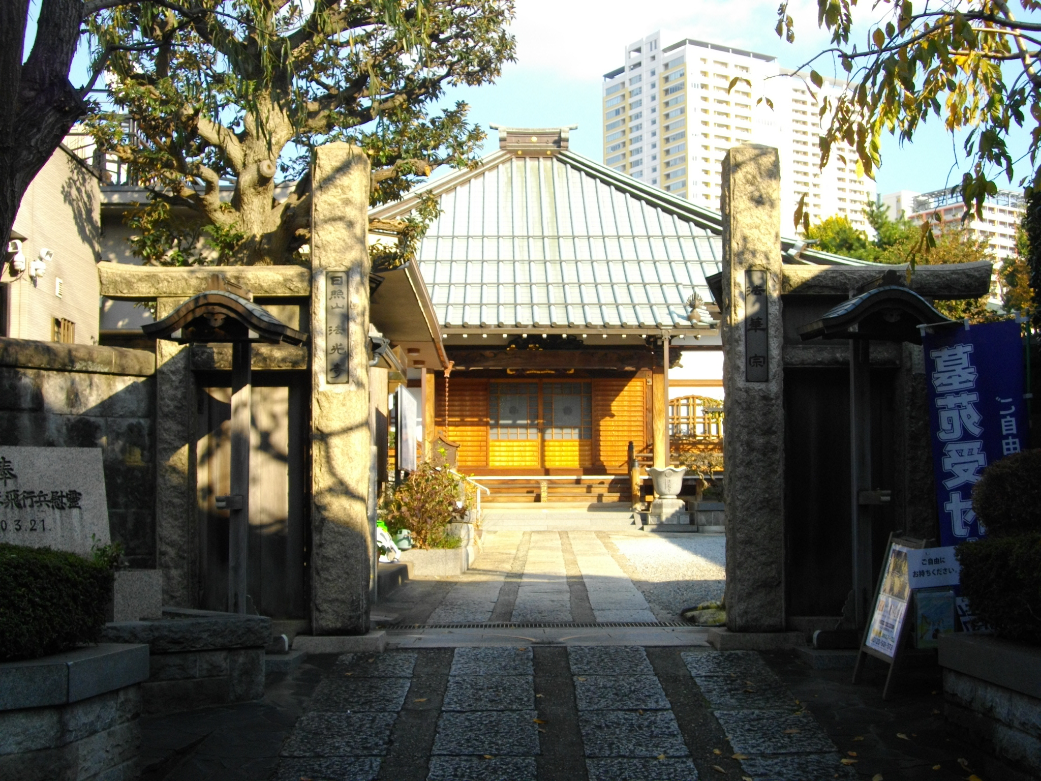 Hoko-ji (Arakawa)